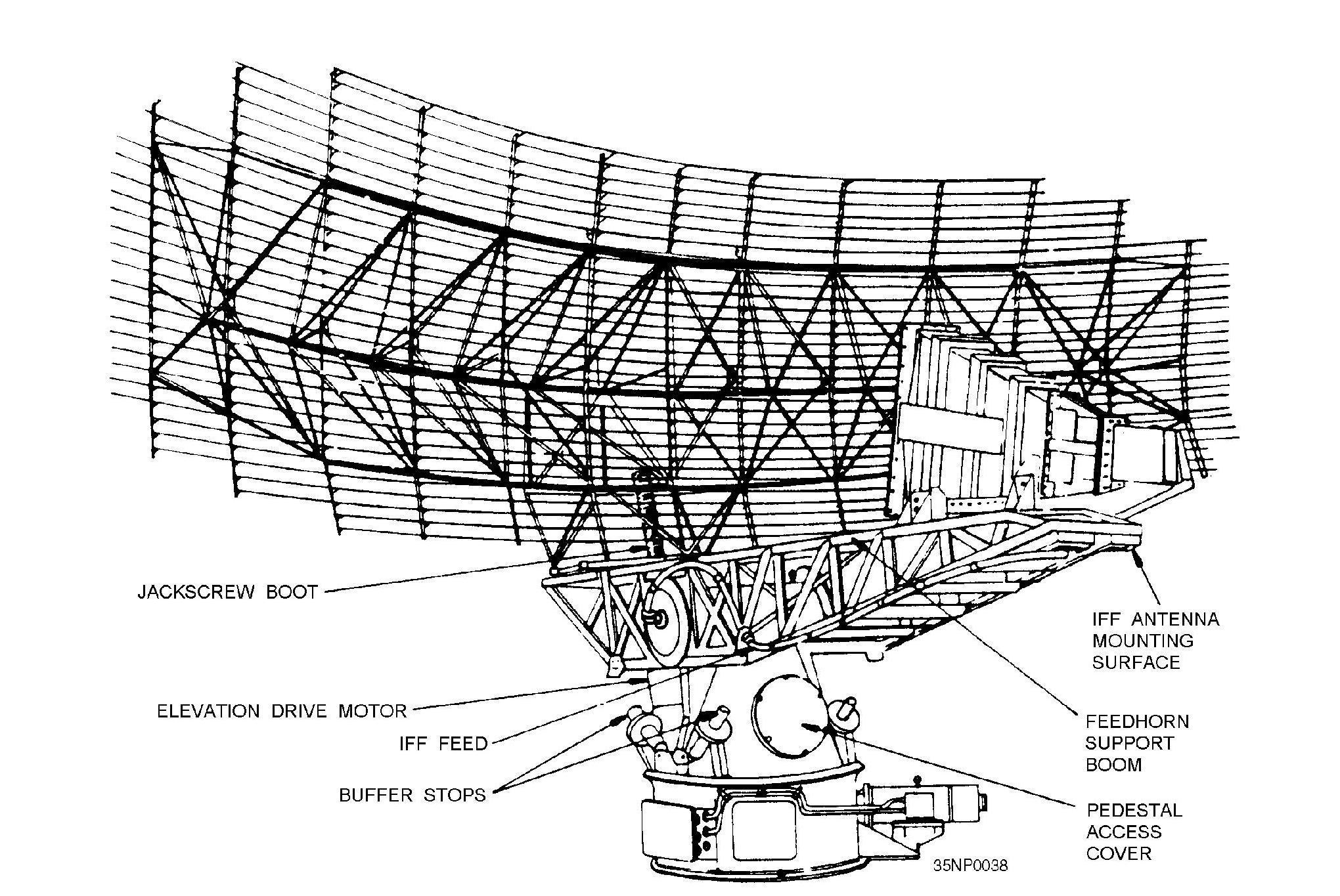 Covers a basic introduction to antennas and wave propagation. It includes discussions about the effects of the atmosphere on rf communications, the various types of communications and radar antennas in use today, and a basic discussion of transmission lines and waveguide theory.